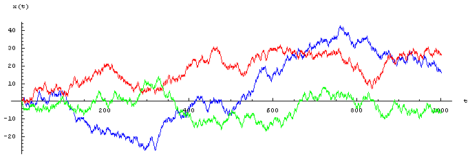 Isotropic random walk on the euclidean lattice Z {\displaystyle \mathbb {Z} } . This picture shows three different walks after 1 000 unit steps, all three starting from the origin.